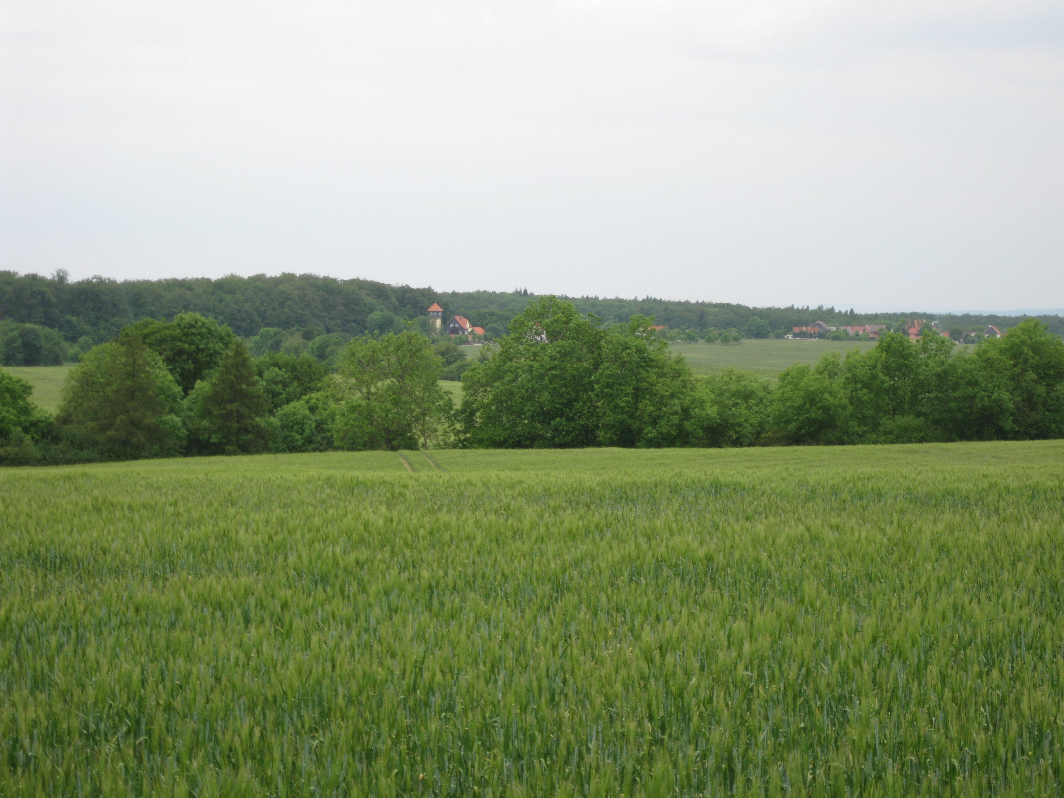 Naturparkzentrum Fürstenhagen